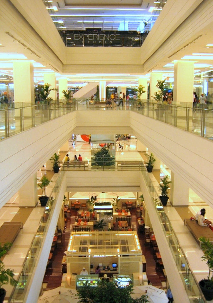 Interior of Siam Paragon, Bangkok, Thailand.